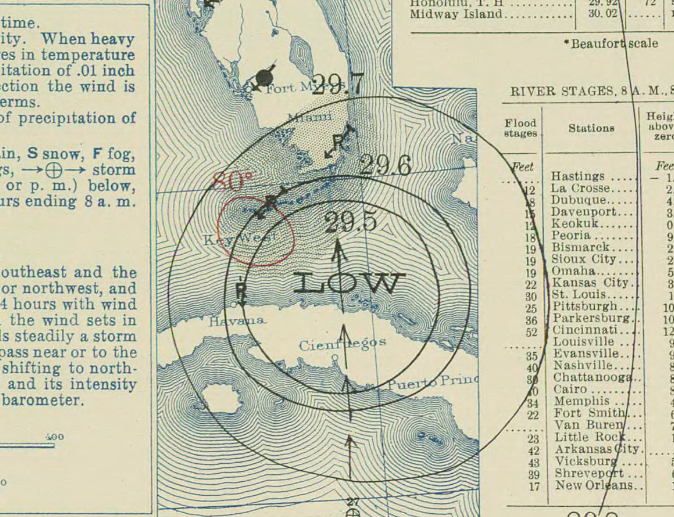 Surface weather analysis of the 1935 Cuba hurricane in the Florida Straits on September 28, 1935.